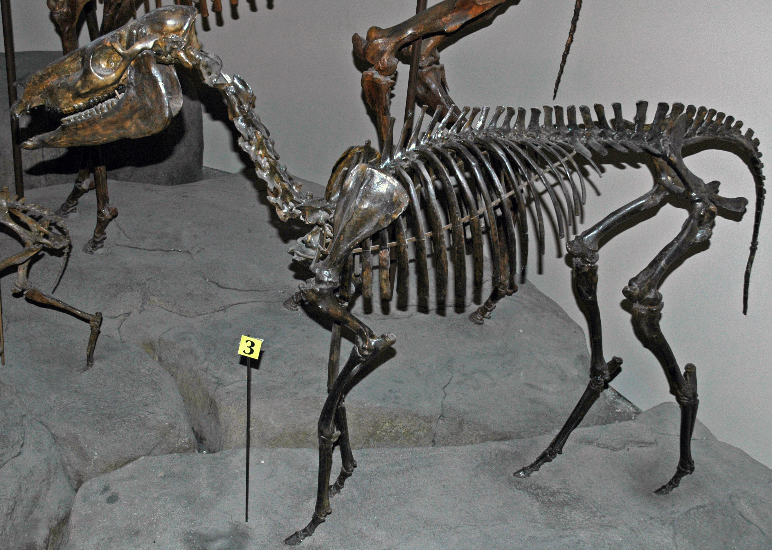 Acritohippus isonesus (Cope, 1889) - fossil horse skeleton from the Miocene of Nebraska, USA. (CM 9080, Carnegie Museum of Natural History, Pittsburgh, Pennsylvania, USA) This species is also known as Merychippus isonesus. From museum signage: "With Merychippus, the horse begins to look more like its modern-day counterpart. This creature stands at the midpoint of horse evolution. The greatest evolutionary adaptation comes right from the horse’s mouth. Merychippus was the earliest horse to adapt its diet to grass. Its higher crowned teeth and deep jaws were adaptations for grazing the tough prairie grass. Although it still had three toed feet rather than hooves, Merychippus was quite the runner and adept at dodging the predators of the day. " Classification: Animalia, Chordata, Vertebrata, Mammalia, Perissodactyla, Equidae Stratigraphy: Sheep Creek Formation, Middle Miocene Locality: Sheep Creek, northwestern Nebraska, USA